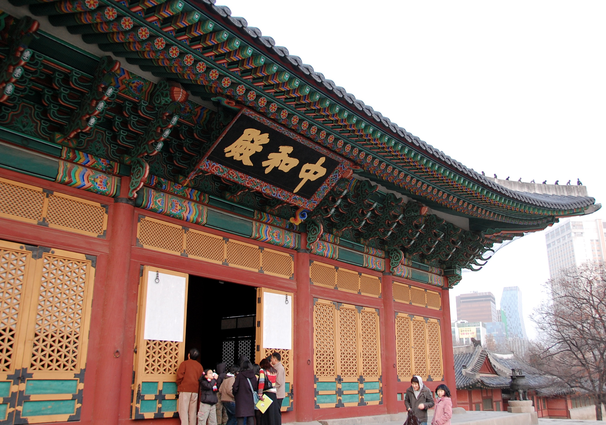 Deoksugung (Deoksu Palace) in Seoul, South Korea